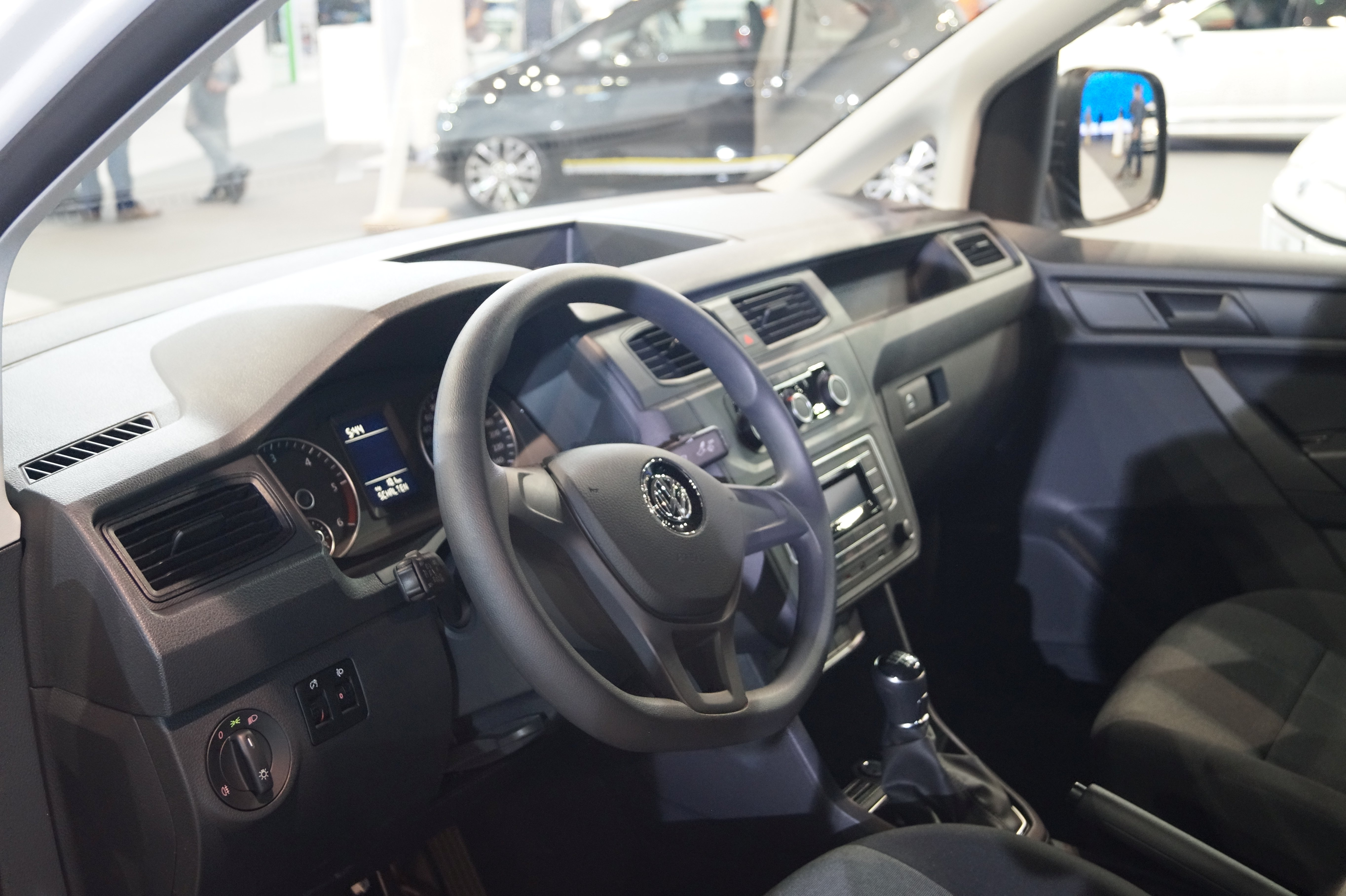 The making of this document was supported by Wikimedia Polska Association, within Wikigrant no. WG 2016-10. English | polski | +/− Wnętrze Volkswagena Caddy Furgon na Motor Show Poznań 2016